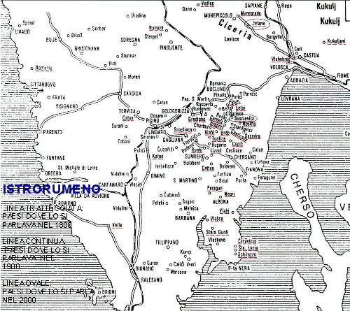 Inside the two circles there are the two last istrorumenian villages in the 2000 Istria: Valdarsa (Susnevita) and Seiane (Zejane).